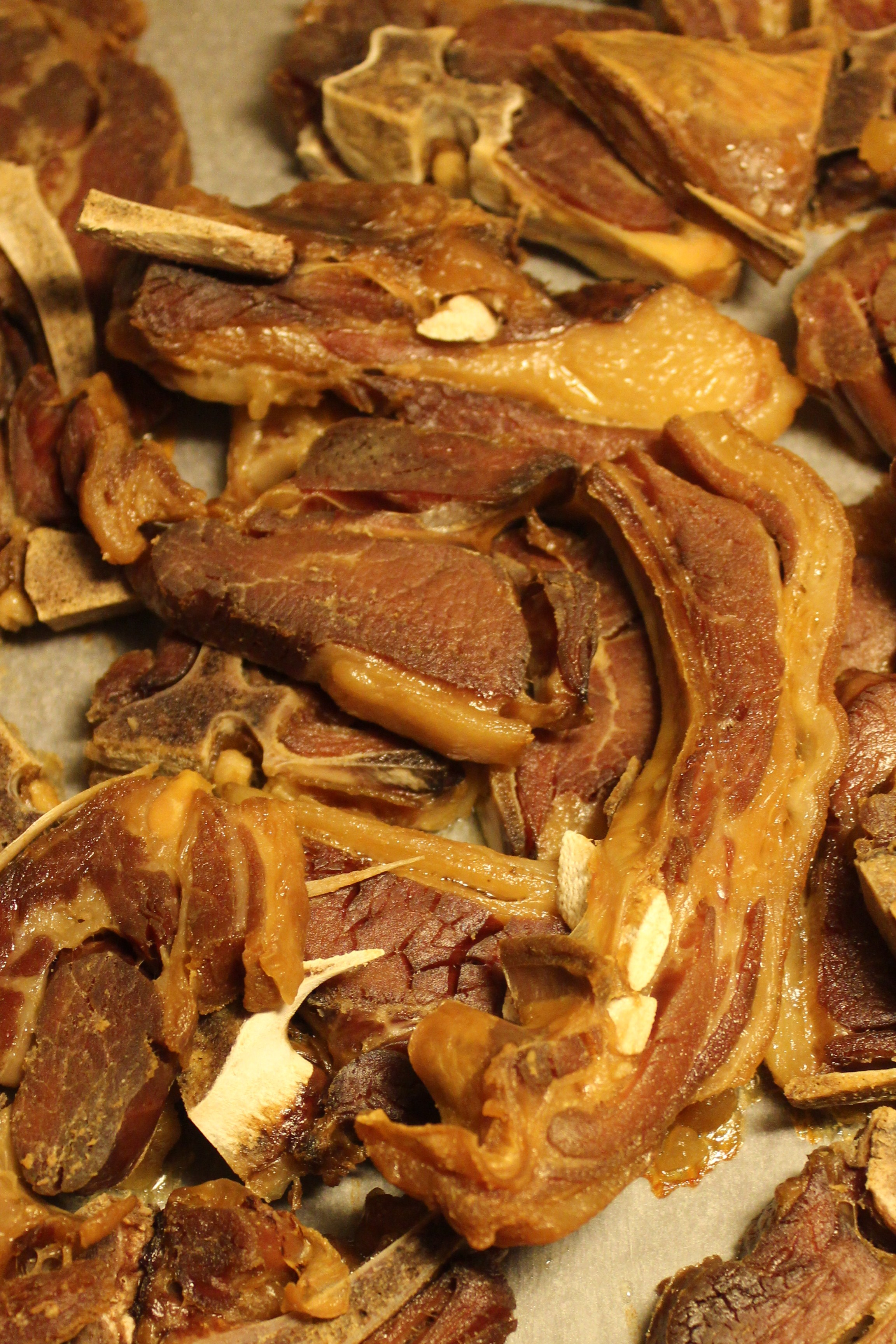 Heaps of pinnekjøt/pinnekjøtt, a main course dinner dish of lamb or mutton